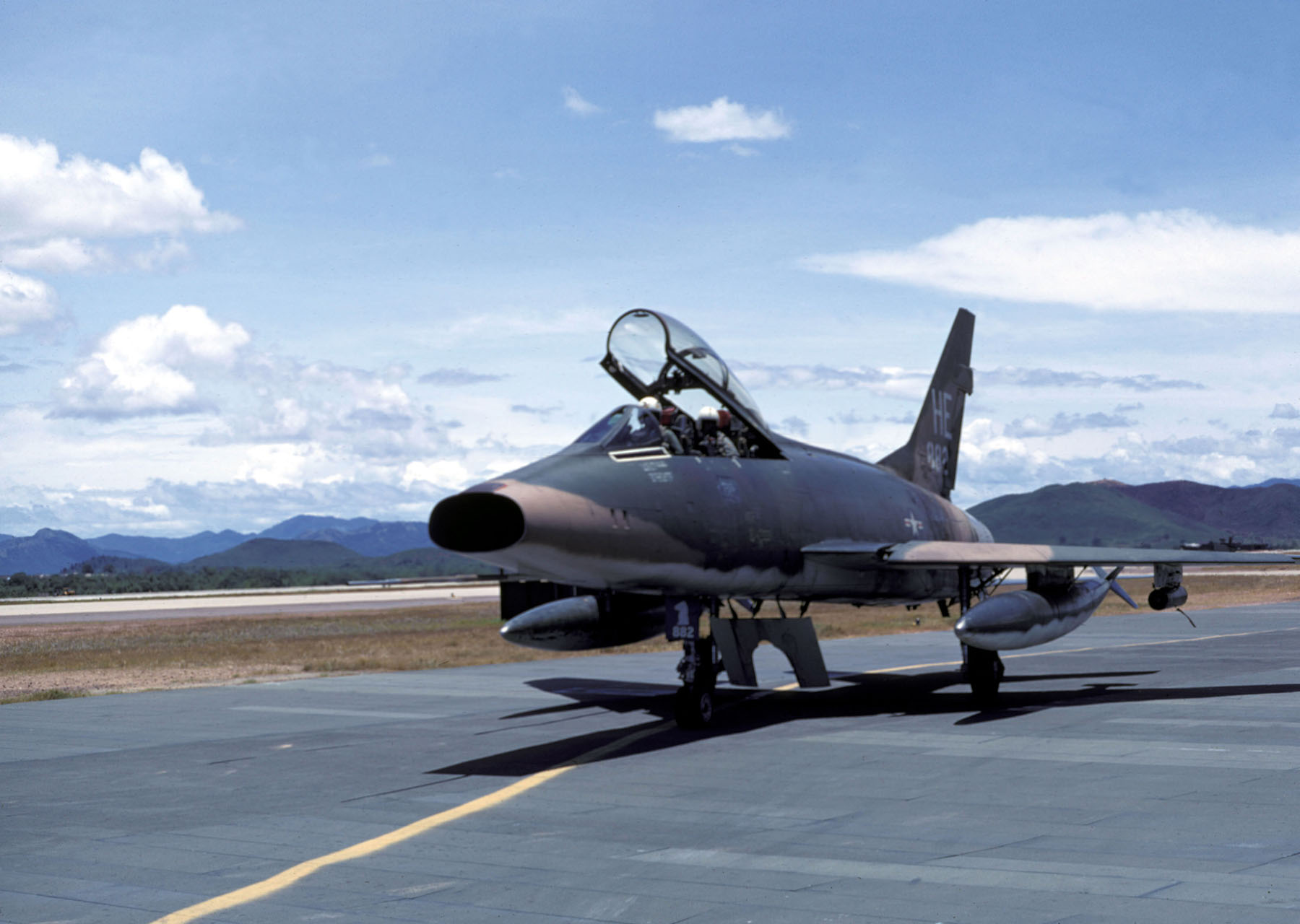 A U.S. Air Force North American F-100F-10-NA Super Sabre aircraft (s/n 56-3882) of the 416th Tactical Fighter Squadron, 37th Tactical Fighter Wing at Phu Cat air base, South Vietnam. The 416th TFS operated from Phu Cat with F-100s from 15 April 1967 to 27 May 1969. The F-100Fs were used in the forward air controller role. The F-100F 56-3882 was finally retired to the MASDC on 7 September 1979 as FE0591.